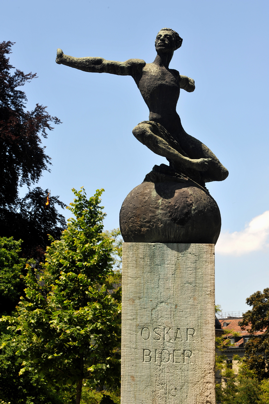 Public park at the Kleine Schanze, memorial (1924) of the aviation pioneer Oskar Bider from Hermann Haller; Bern, Switzerland.